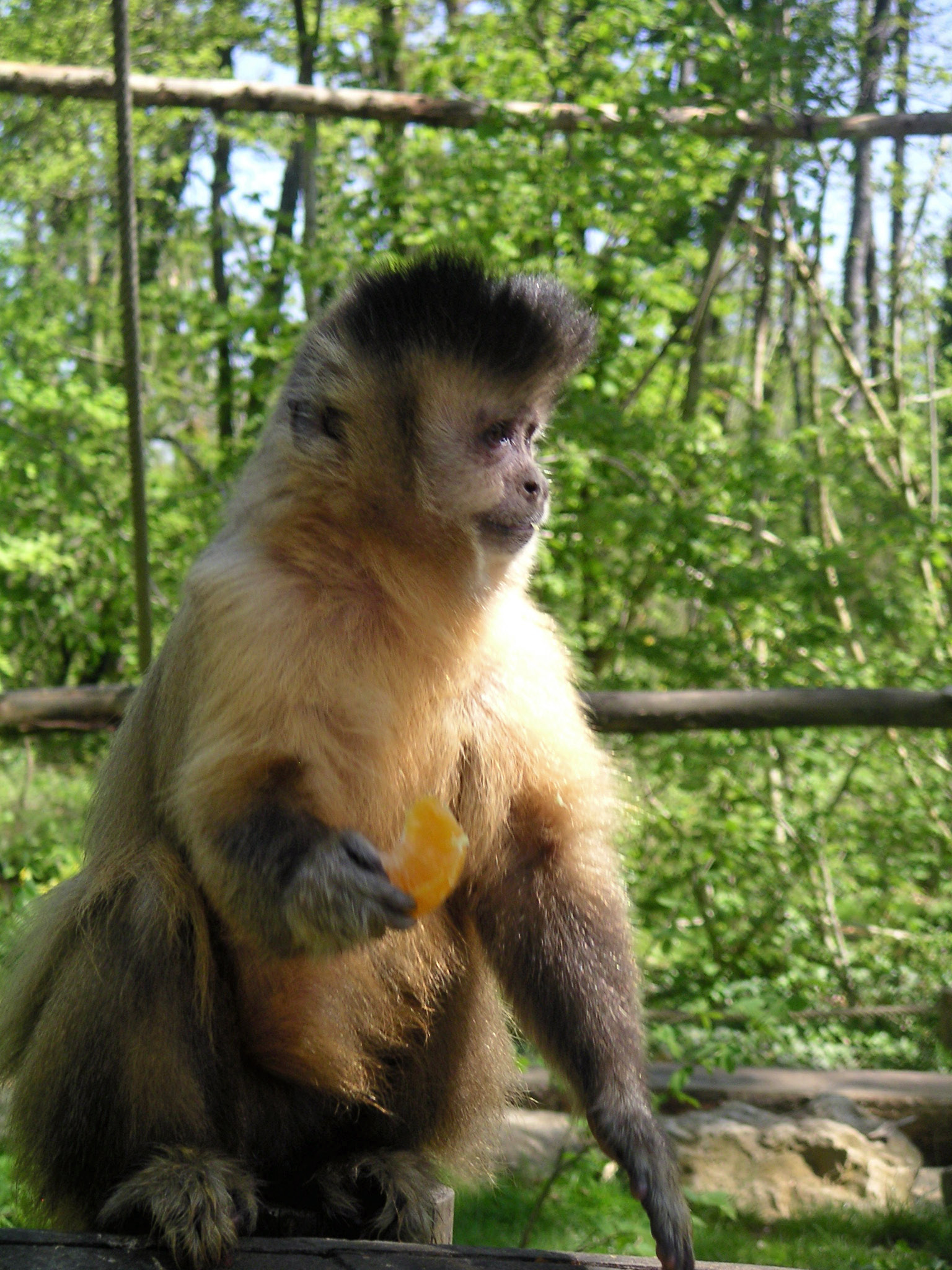 Photo of a Tufted Capuchin, monkey specie from south America.